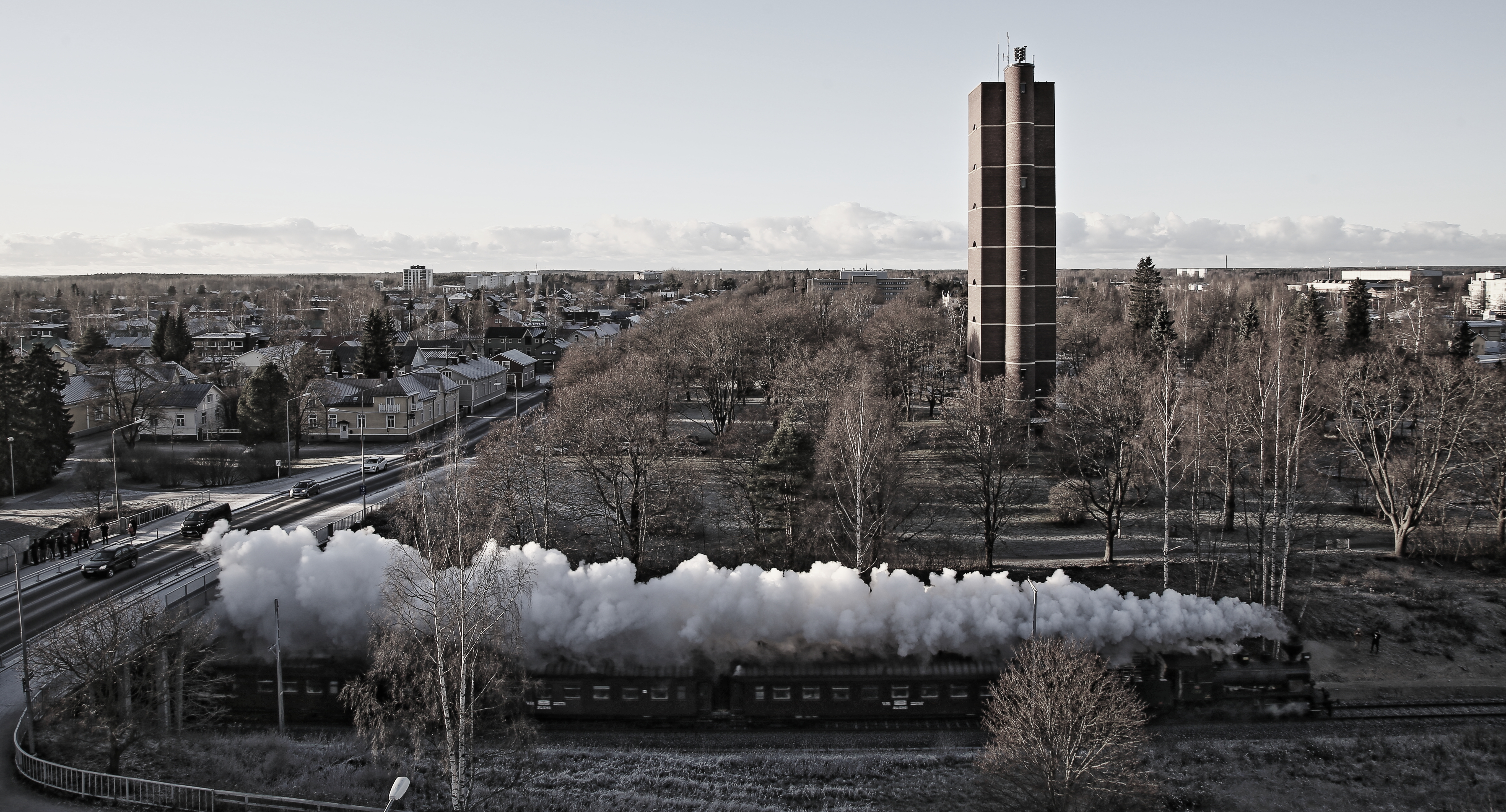 Höyryveturi, Porin Vesitorni